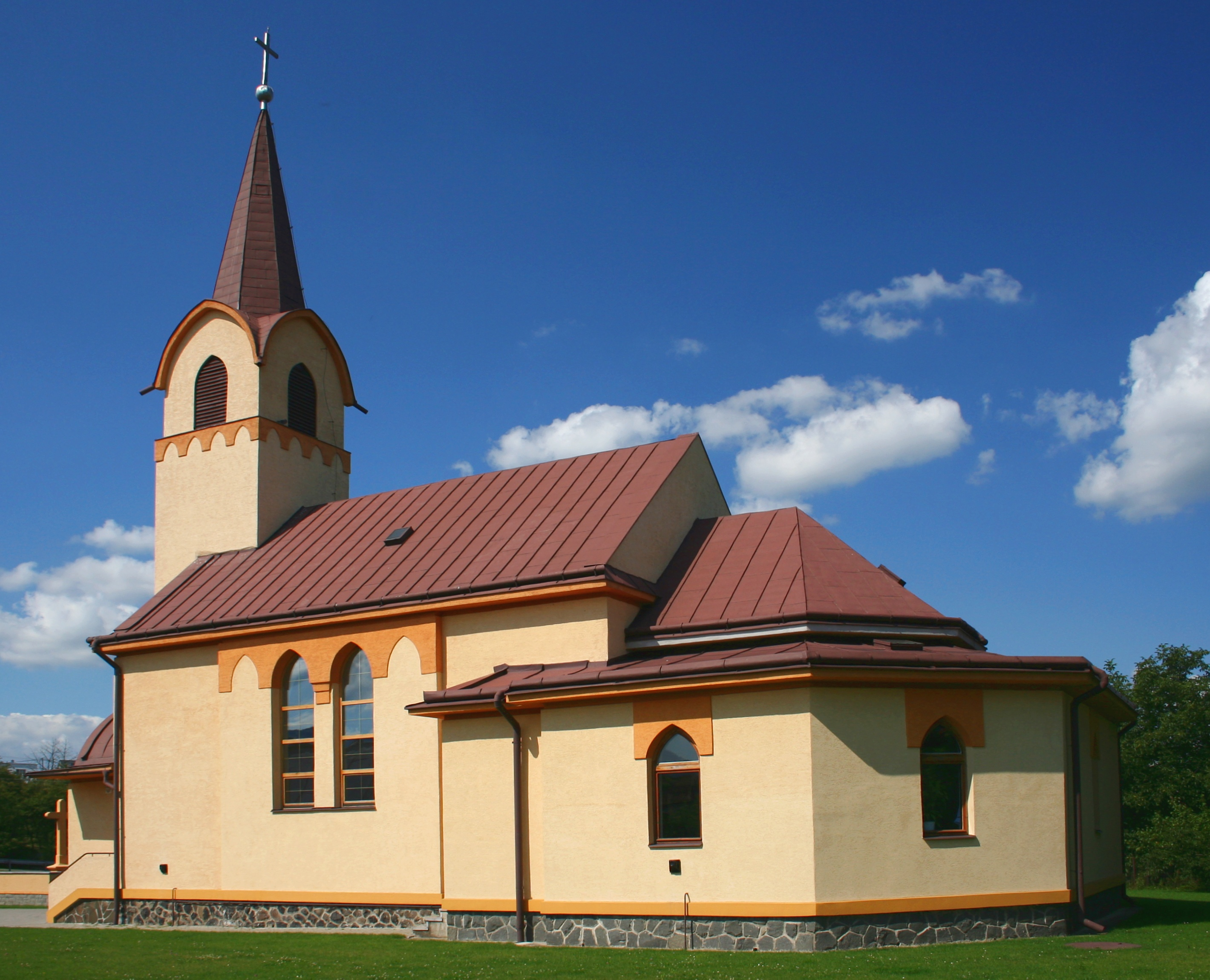 church in Hlinné, Slovakia